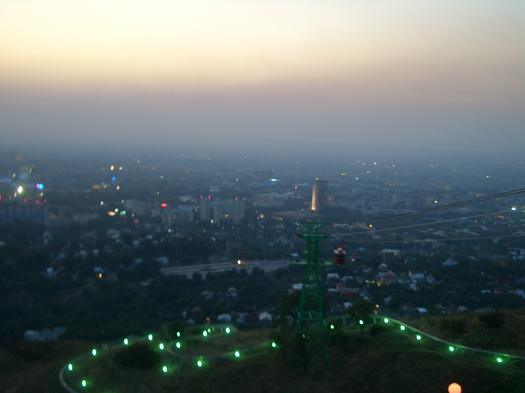 The aerial tram line runs from the top of Kok Tobe to downtown Almaty